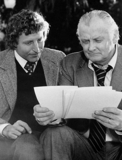 Photo of Bruce Solomon as Rabbi David Small and Art Carey as police chief Paul Lanigan from the television series Lanigan's Rabbi.